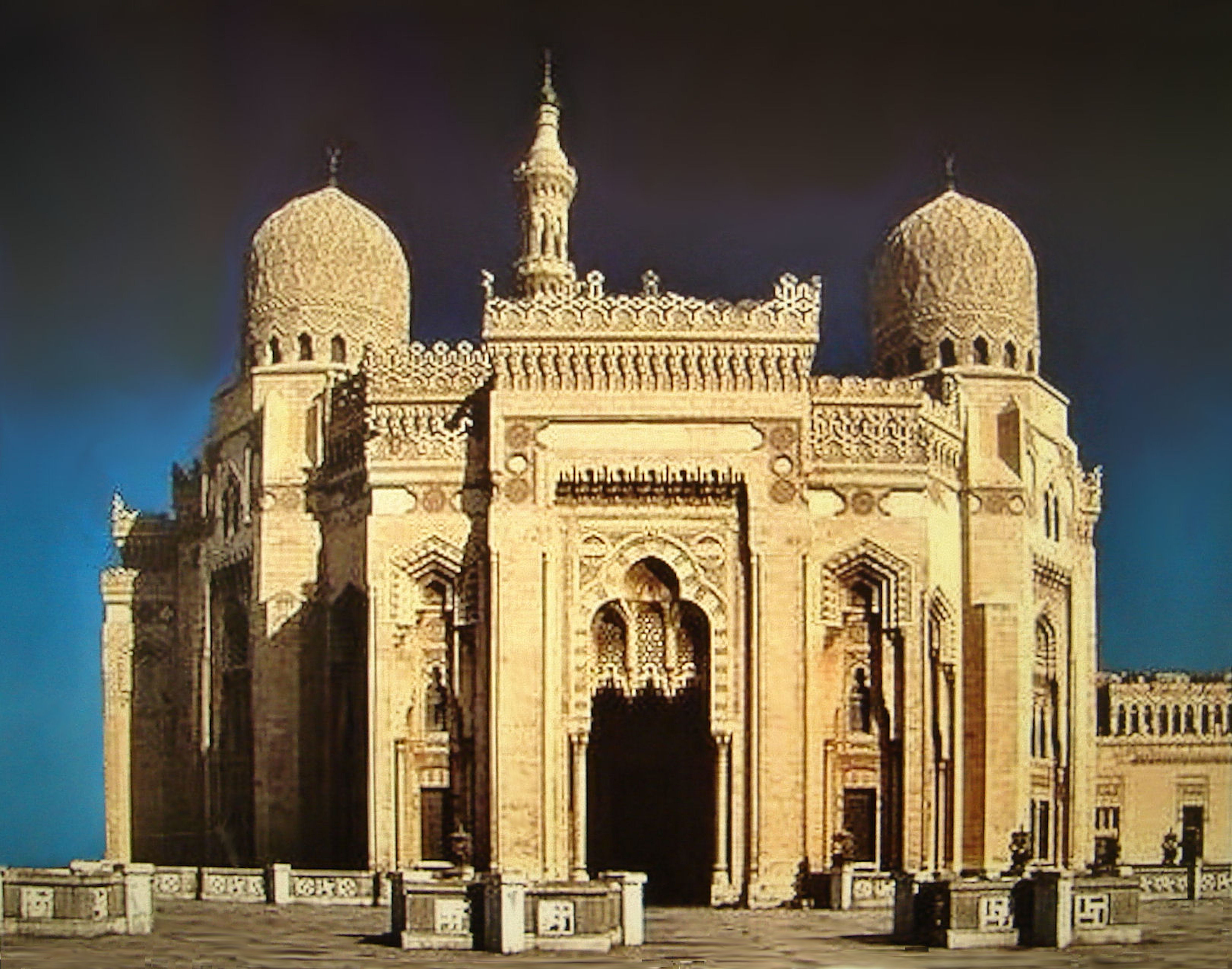 Abu el-Abbas el-Mursi Mosque